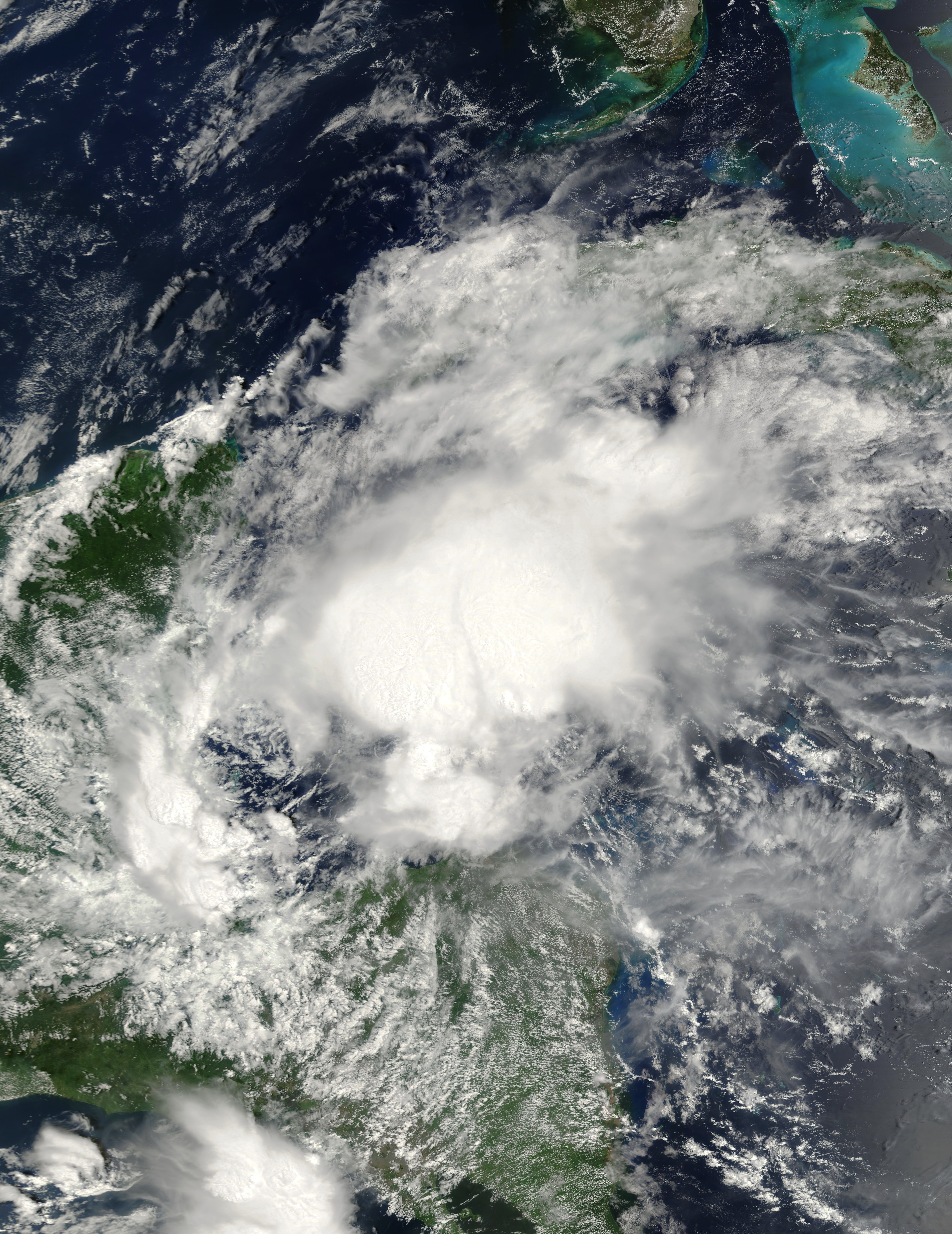 Tropical Storm Chantal intensifying in the Gulf of Honduras on August 20, 2001.